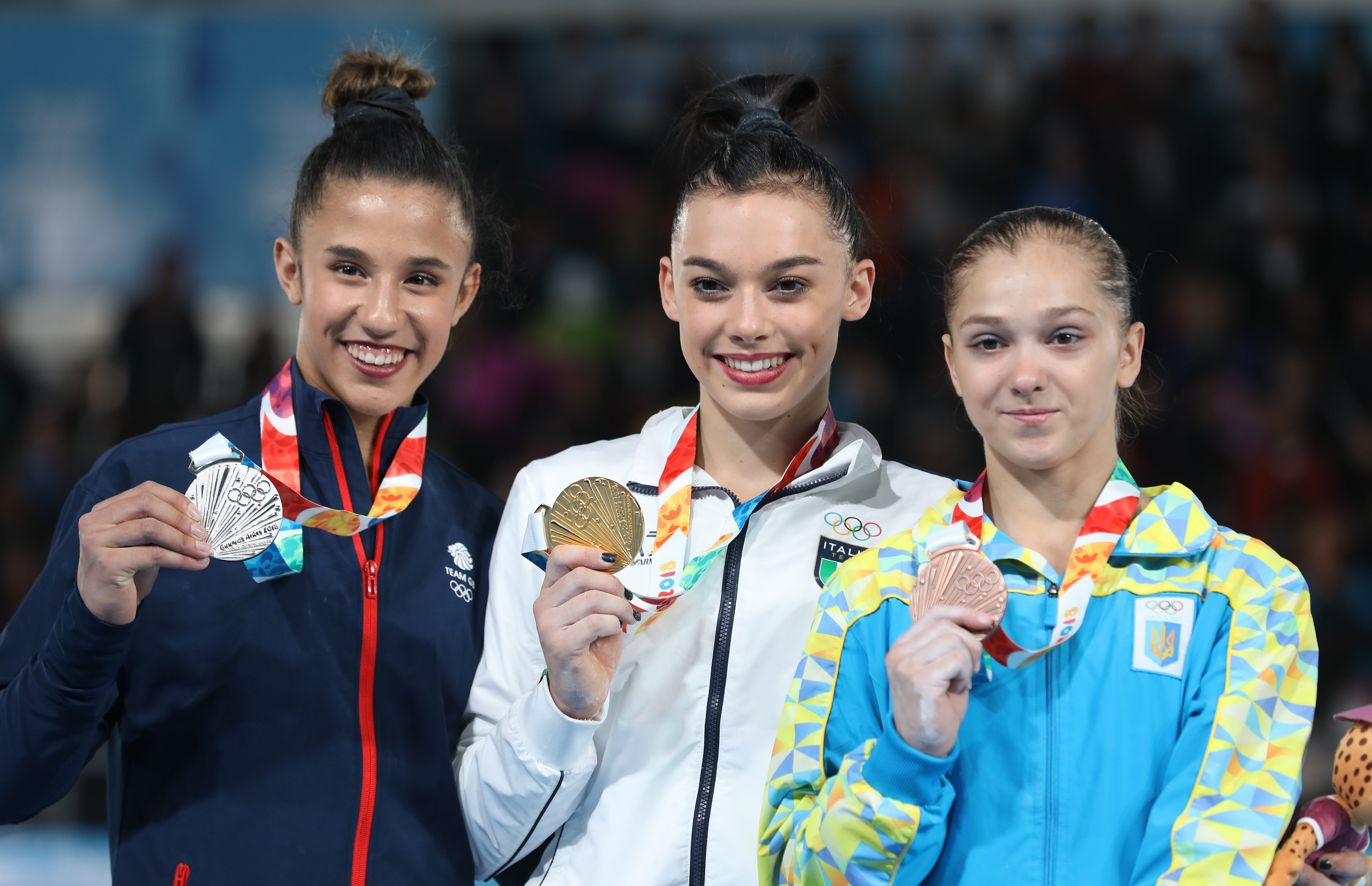 Victory ceremony of the girls' artistic gymnastics at the 2018 Summer Youth Olympics in Buenos Aires on 12 October 2018. Depicted: Amelie Morgan. Anastasia Bachynska. Giorgia Villa.